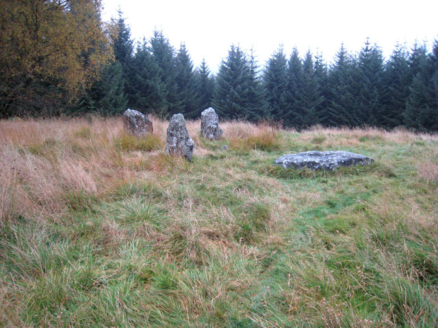 The Three Kings, Redesdale Forest This is the site of a Bronze Age burial which took place about 3,500 years ago. The person who died was cremated and their remains placed in a small stone-lined grave in the middle of the site. He must have been of some importance because the burial is marked by four enormous standing stones. One of the stones fell down many years ago and the site became known as "The Three Kings". The largest stone weights 2.5 tons. The Forestry Commission have constructed a forest walk to the site from the Blakeburnhopehaugh car park NT7800.